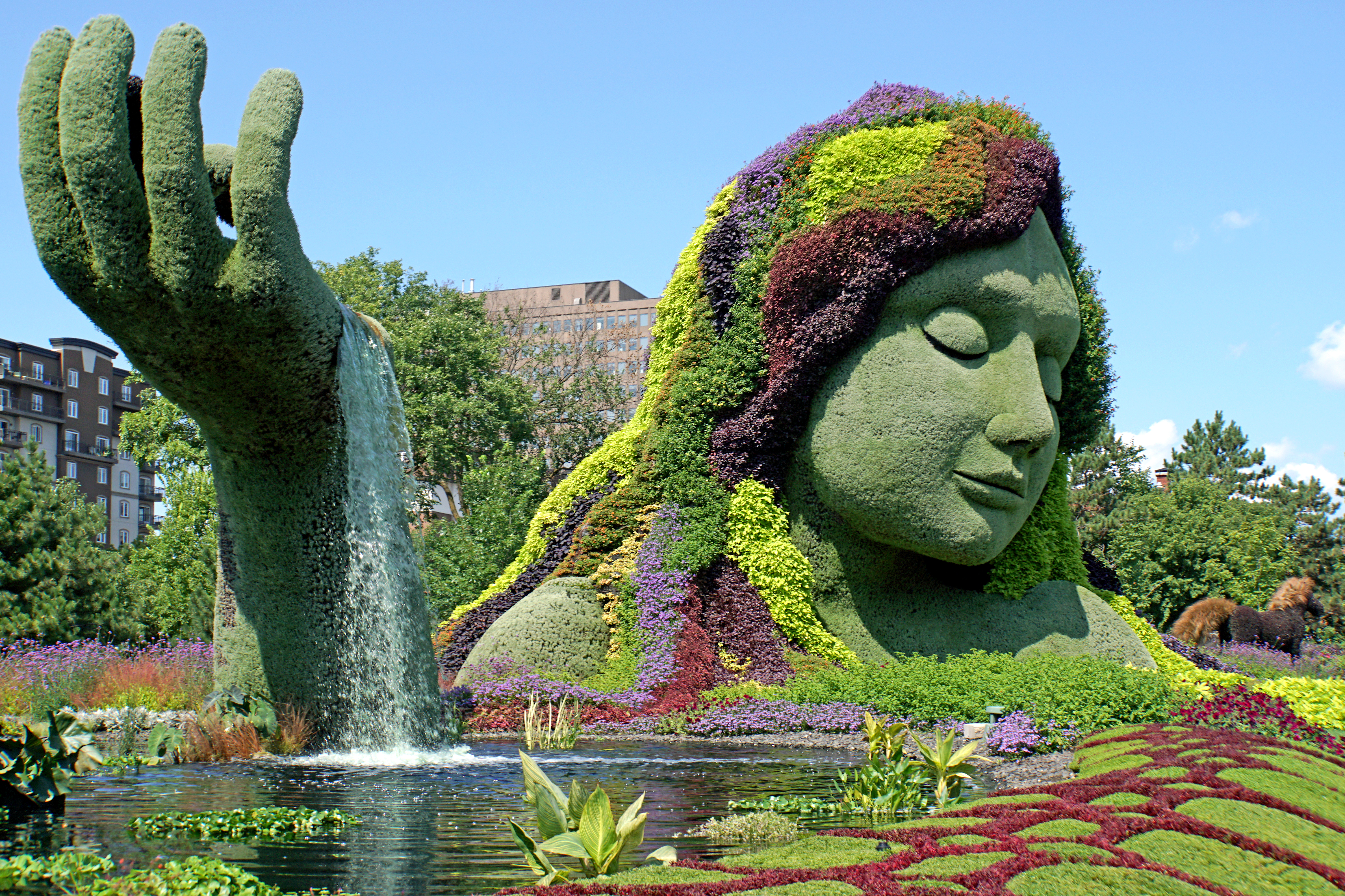 Sculpture "Mother Earth: The Legend of Aataentsic" in the Jacques-Cartier Park, Gatineau, Québec. Interpretation of Mother Earth from the creation story of the Haudenosaunee people. Like the stars and the moon, she was created from parts of Sky Woman (Aataentsic), which the good spirit buried in the earth so that all living beings would always find food.